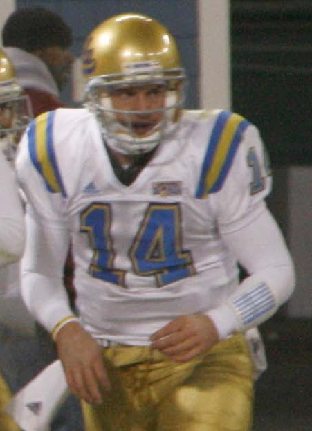 The 2009 EagleBank Bowl, a college football bowl game between the Temple Owls and UCLA Bruins, played at Robert F. Kennedy Memorial Stadium in Washington, D.C., on December 29, 2009.